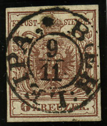 Austria Issue I - 6 kreuzer - cancelled Böh(misch) Leipa